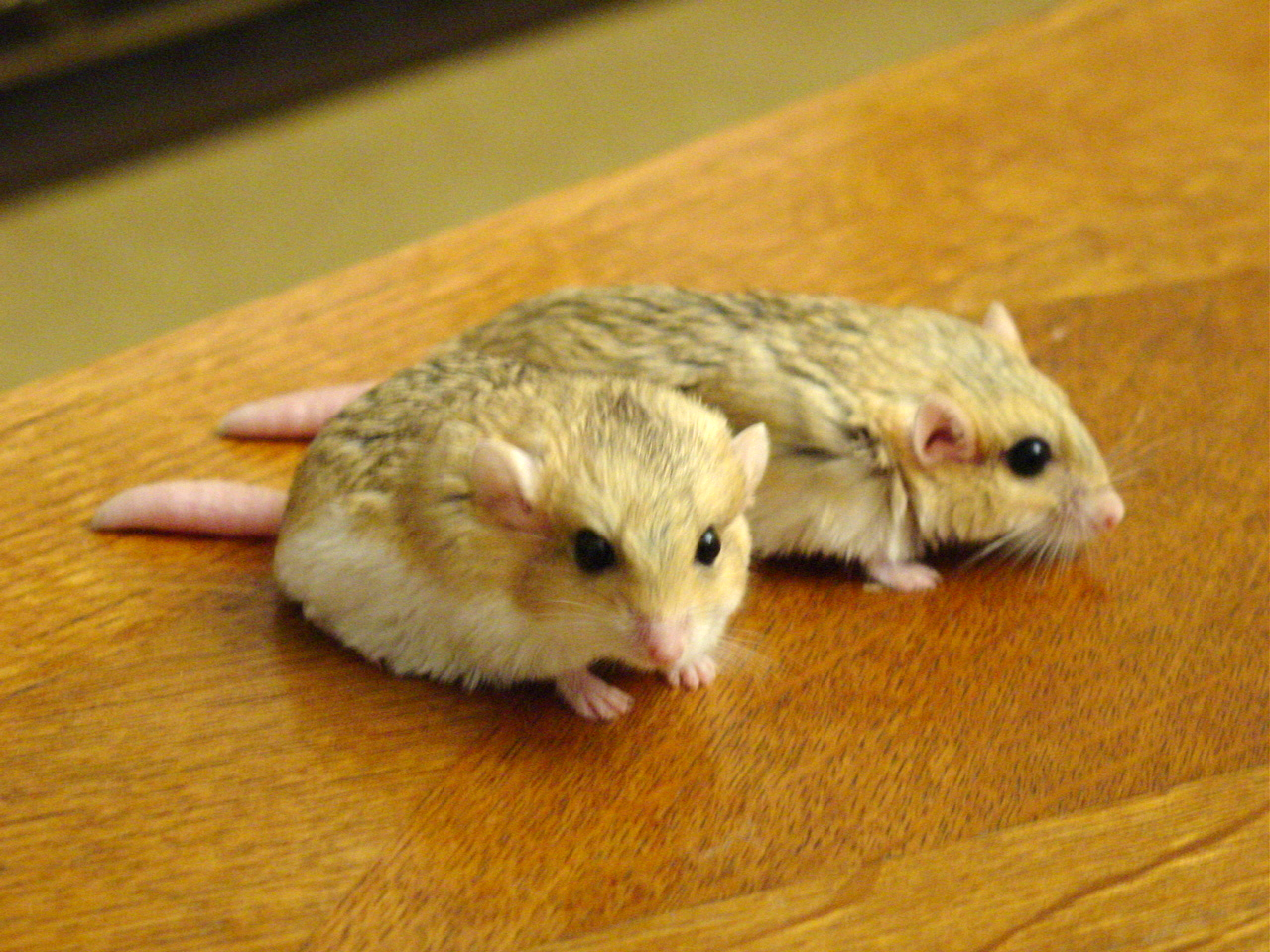 A male and female fat-tailed gerbil (Pachyuromys duprasi).